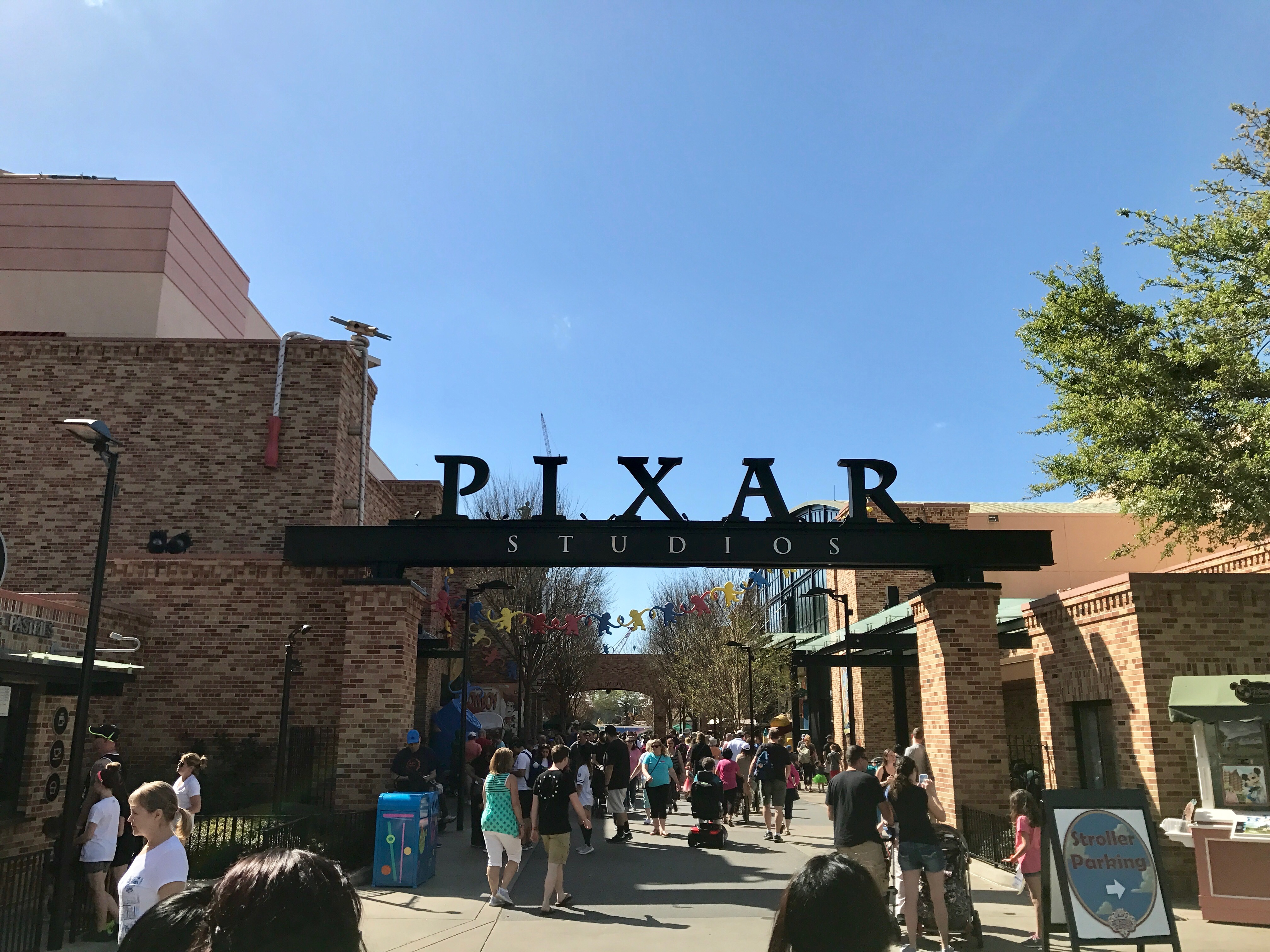 Entry to Pixar Place at Disney's Hollywood Studios.